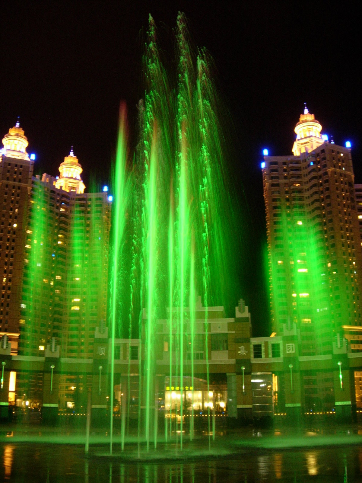 star sea piazza music fountain